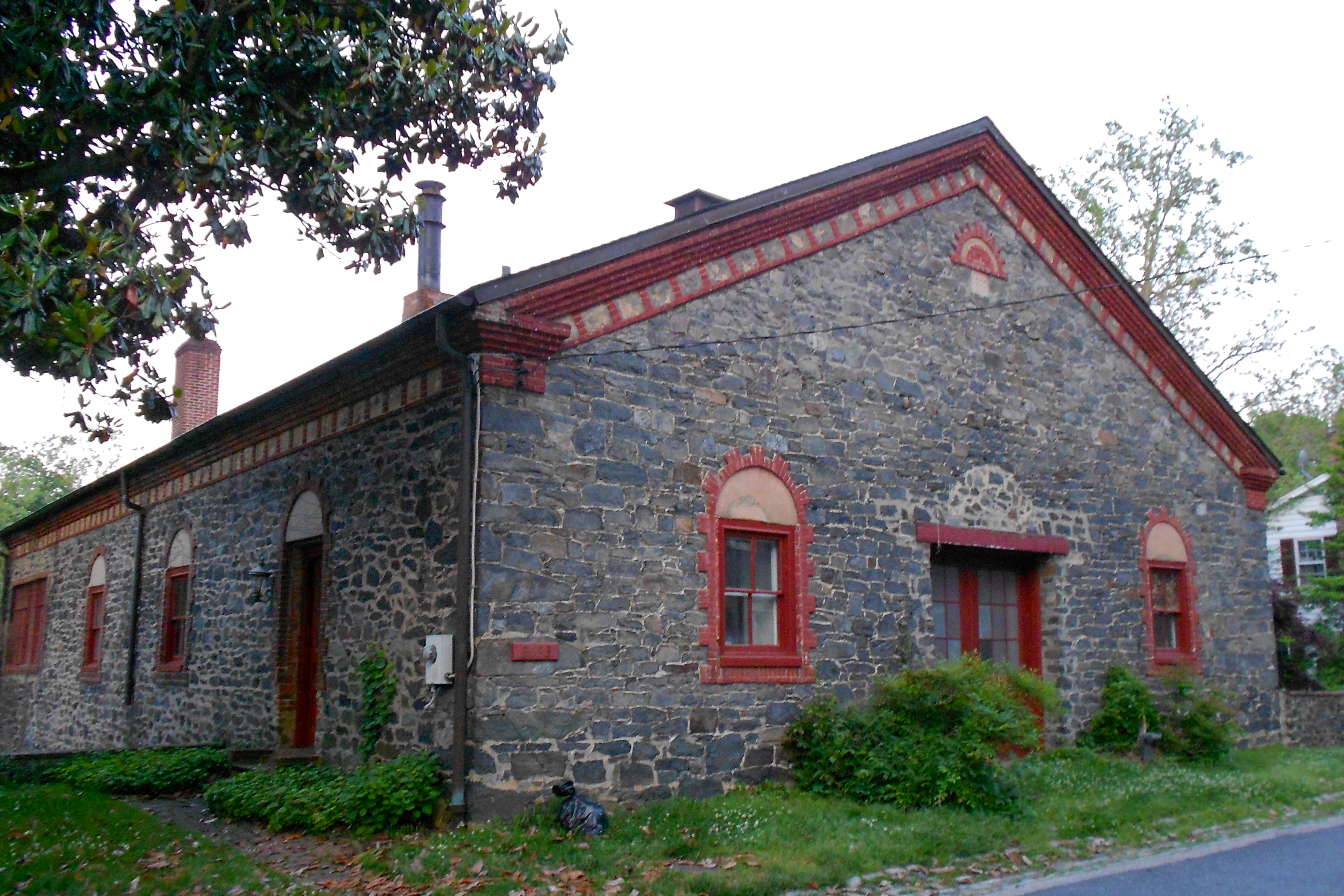 Old Mill with 1879 datestone in the Dickeyville Historic District on the NRHP since July 12, 1972 On Pickwick and Weathedsville Roads in Gwynn's Falls area of Baltimore, Maryland.